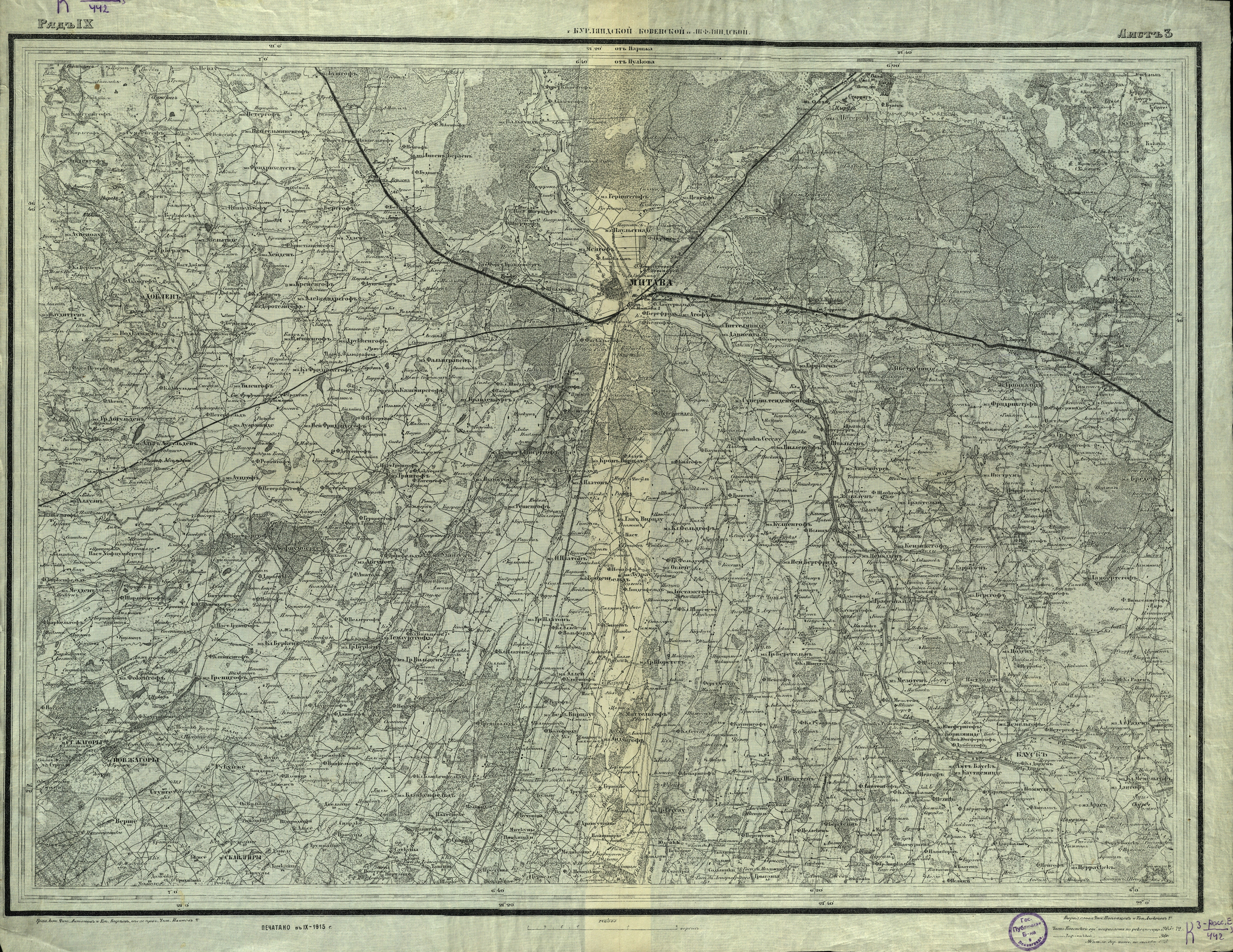 "Shubert's map". Fragment of topographic map of Russian Empire. 3 versta in inch (1260 m in 1 cm).